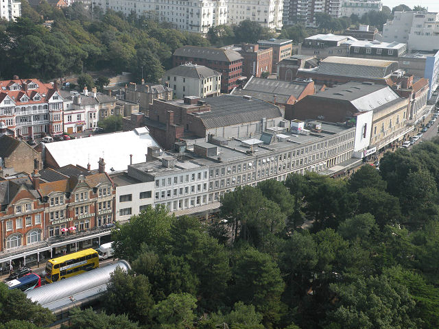 Views from the Eye (17) - Westover Road A unified crescent, at least on the upper stories, sweeps round from the Wetover Gardens Hotel to the ABC Cinema. One of a series of views from the Bournemouth Eye. Next: 1505084. Start: 1505059.